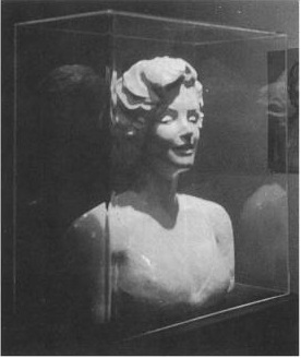 Plaster model to create Marilyn in the movie Rendez-vous a Montreal